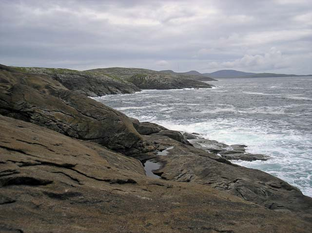 The Atlantic coastline of Fiaraigh A lovely island off the north coast of Barra.